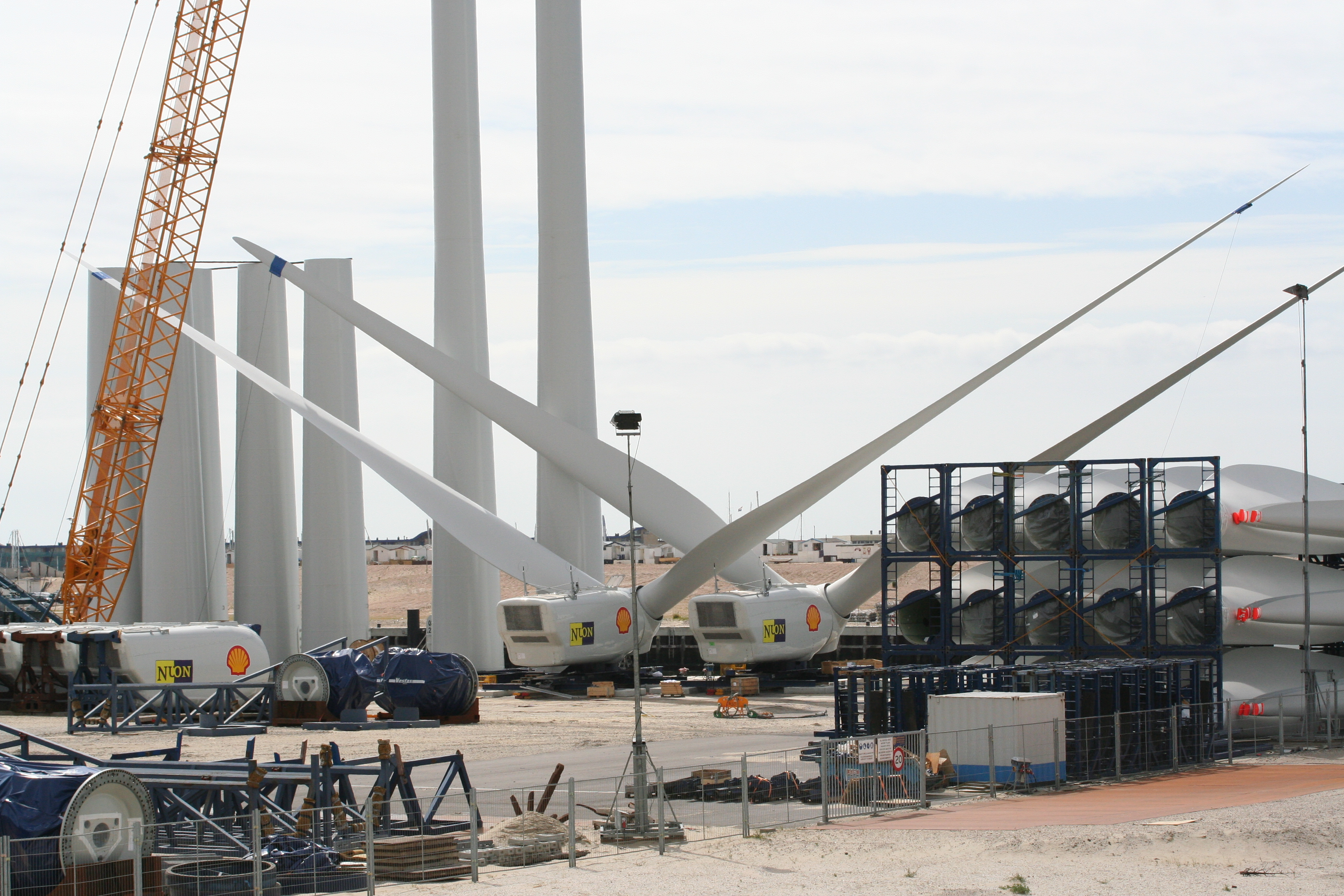 Wind turbines under construction. This will be place app. 20 km from the Dutch coast (Egmond aan Zee offshore wind farm).